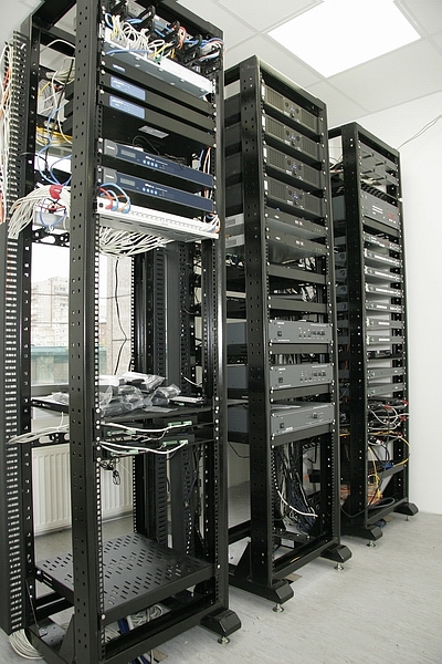 The central equipment of systems of a modern conference hall (the company is located in Moscow). In the first rack (from top to down): network switchboard, central controller of a control system, splitters of a control system (4 pieces), network switchboard. The second rack: amplifiers of a sound (4 pieces), digital audioplatforms (2 pieces), shelves with another equipment (2 pieces), controllers of a conference-system (2 pieces), the controller of system of simultaneous interpretation. The third rack: a professional video equipment (videoswitchboards, scalers, transmitters on twisted pair and an optical fiber).